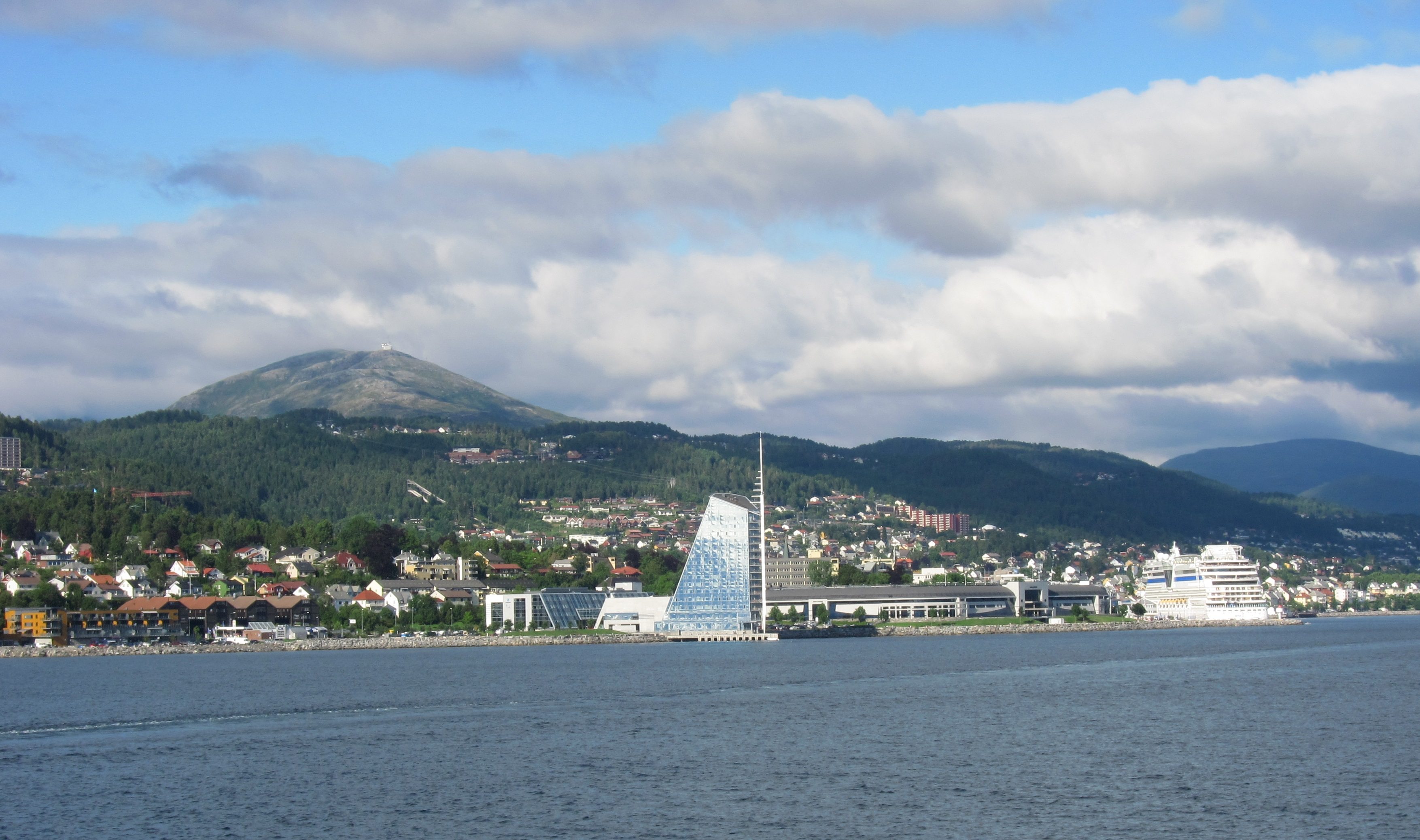 Molde city seen from fjord.